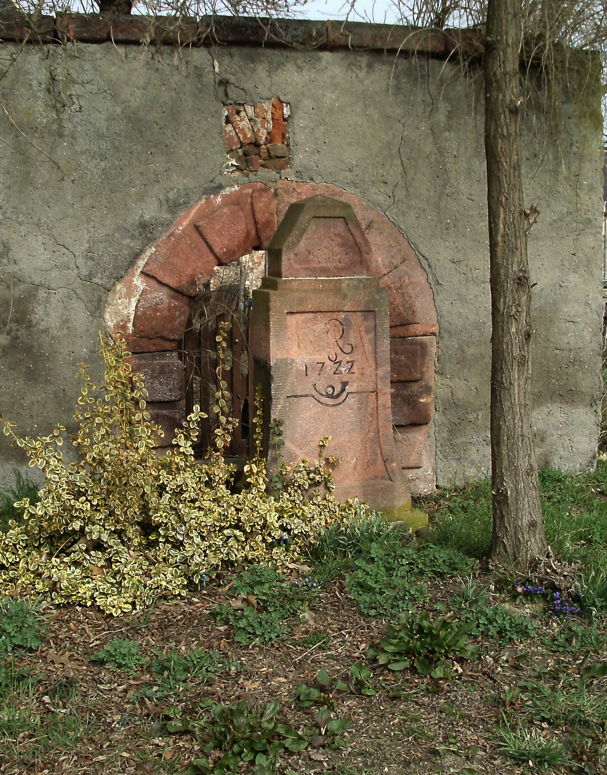 Quarter mile stone in Bernbruch (Grimma, Leipzig district, Saxony)